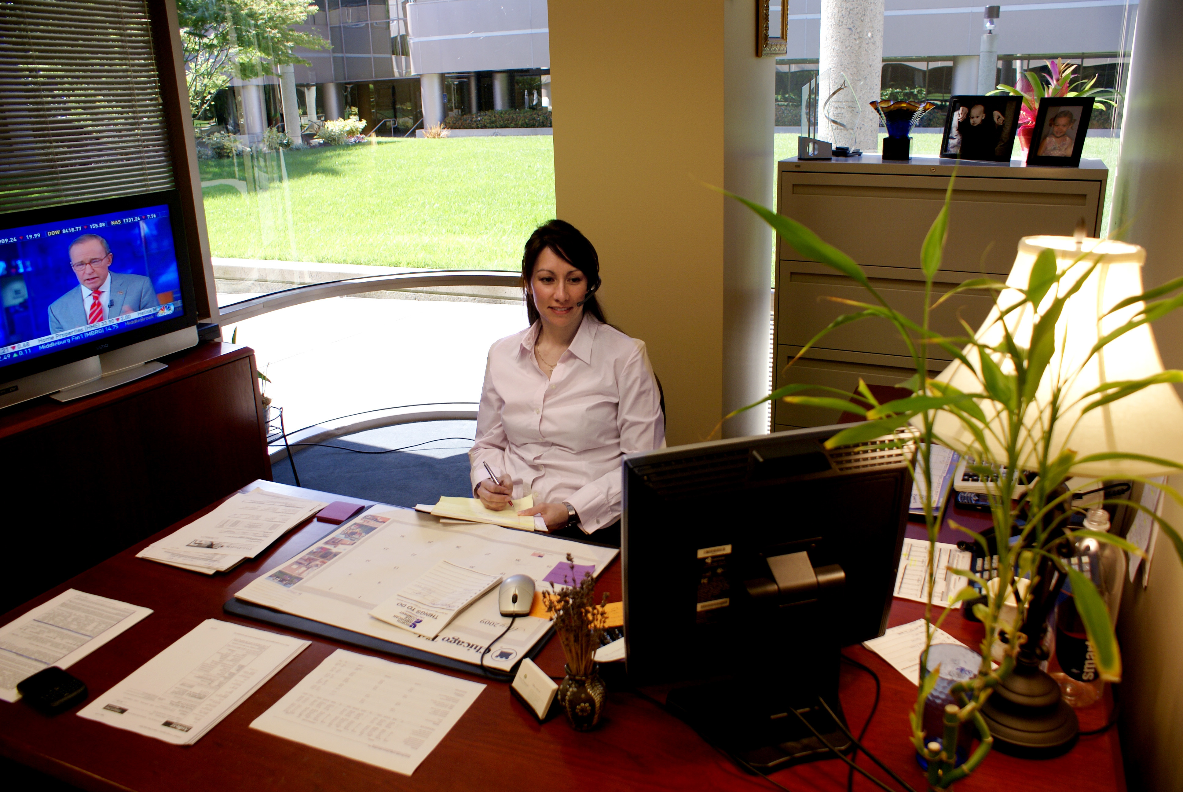 Tiffany Rene Estrella Attwood at Emery Financial